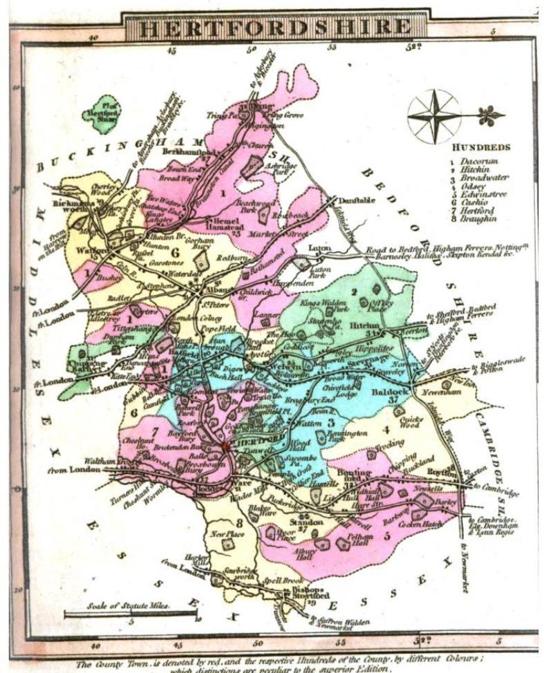 Hertfordshire